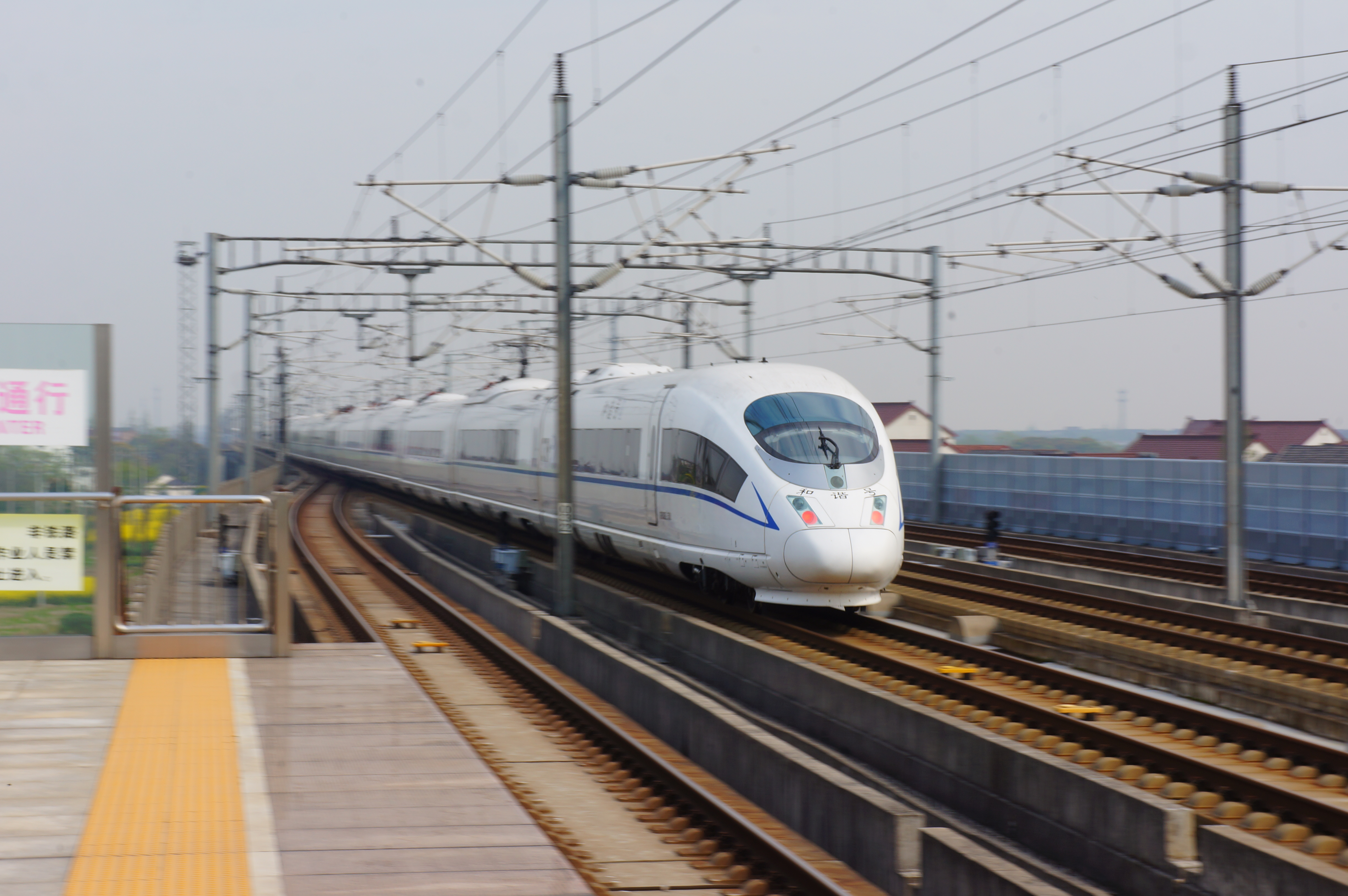 201704 G20 passes Changxing Station.